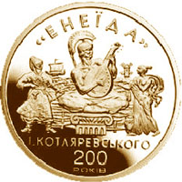 Coin minted to mark 200 y anniversary of Eneyida by Ivan Kotlyarevsky. The jubilee coin of 100 Hryvnias denomination is dedicated to 200th anniversary since the first publication of "Aeneid" poem by Ivan Kotlyarevsky (1769-1838), the founder of the new Ukrainian literature.